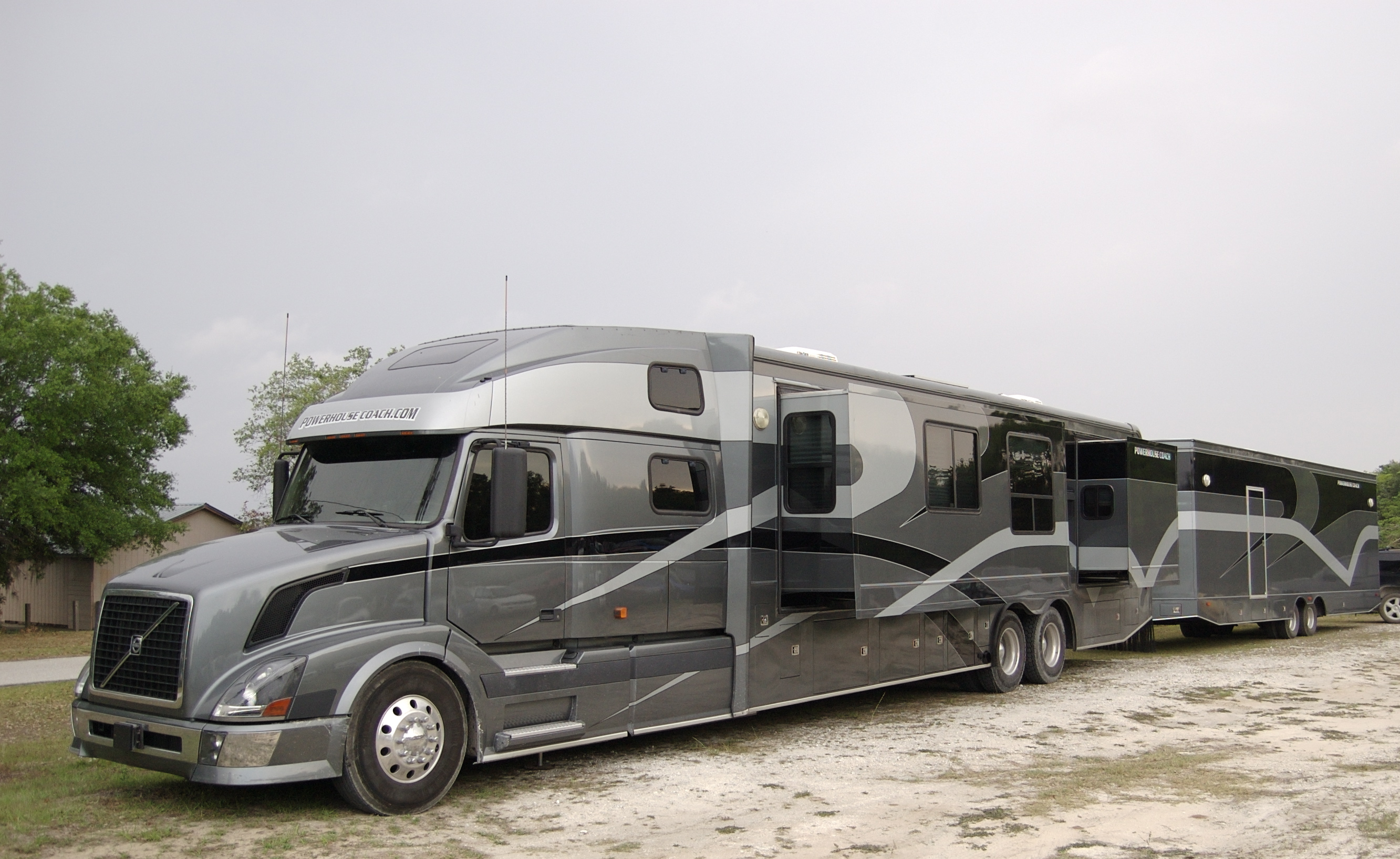 Powerhouse Coach - luxury motor coach based on Volvo VNBad Ass RV and Trailer